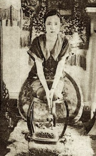 Actress Olive Young from the May 26, 1926 cover of Liangyou magazine in Shanghai.